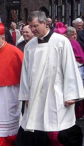 Mgr. Bonny 2008